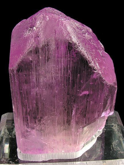 Spodumene (Var.: Kunzite) Locality: Konar Valley (Kunar Valley), Konar (Kunar; Konarh; Konarha; Nuristan) Province, Afghanistan (Locality at ) Size: 10.7 x 6.6 x 3.5 cm. This particular crystal is a rather thick and robust crystal with bright purplish-pink color. For a crystal of this thickness, it is amazingly gemmy and complete all the way around. Honestly, the crystal is more than 90% gem quality and shows a VIBRANT pink color when viewed down the c axis. The crystal is rather lustrous as well, at not at all dull or pitted like many can be. Ex. Norm and Roz Pellman and Richard Kosnar Collections.